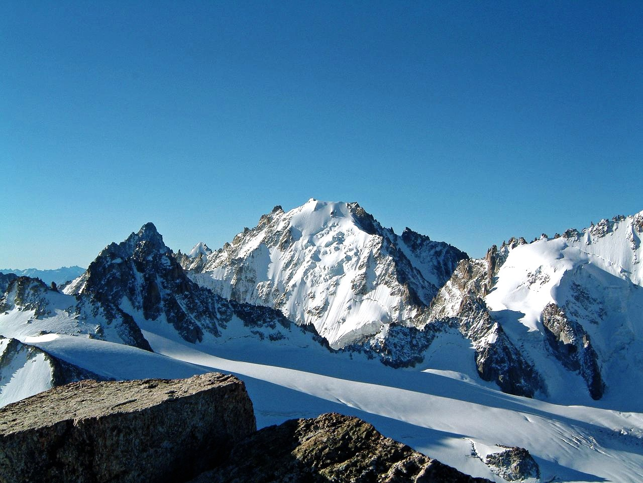 Aiguille d'Argentière from Aiguille du Tour, Switzerland